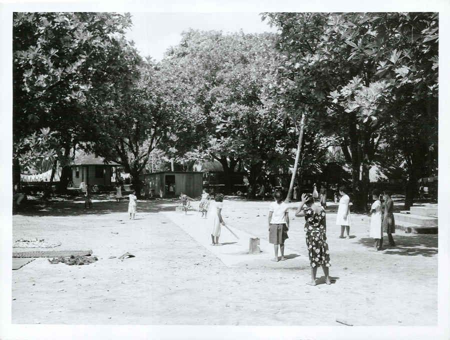 The only cleared area on Fakaofo atoll. Women play cricket after their Wednesday women's meeting. Photographer: Mr. Nicholson. Archives Reference: AAQT 6539 W3537 Box 69 /A81212 Material from Archives New Zealand